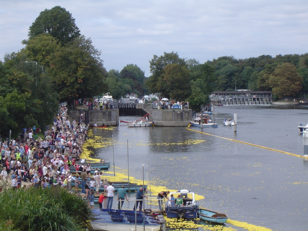 Molesey lock after the release of 160,000 plastic ducks at the start of the Great British Duck Race 2007 (copy own work from English wiki)